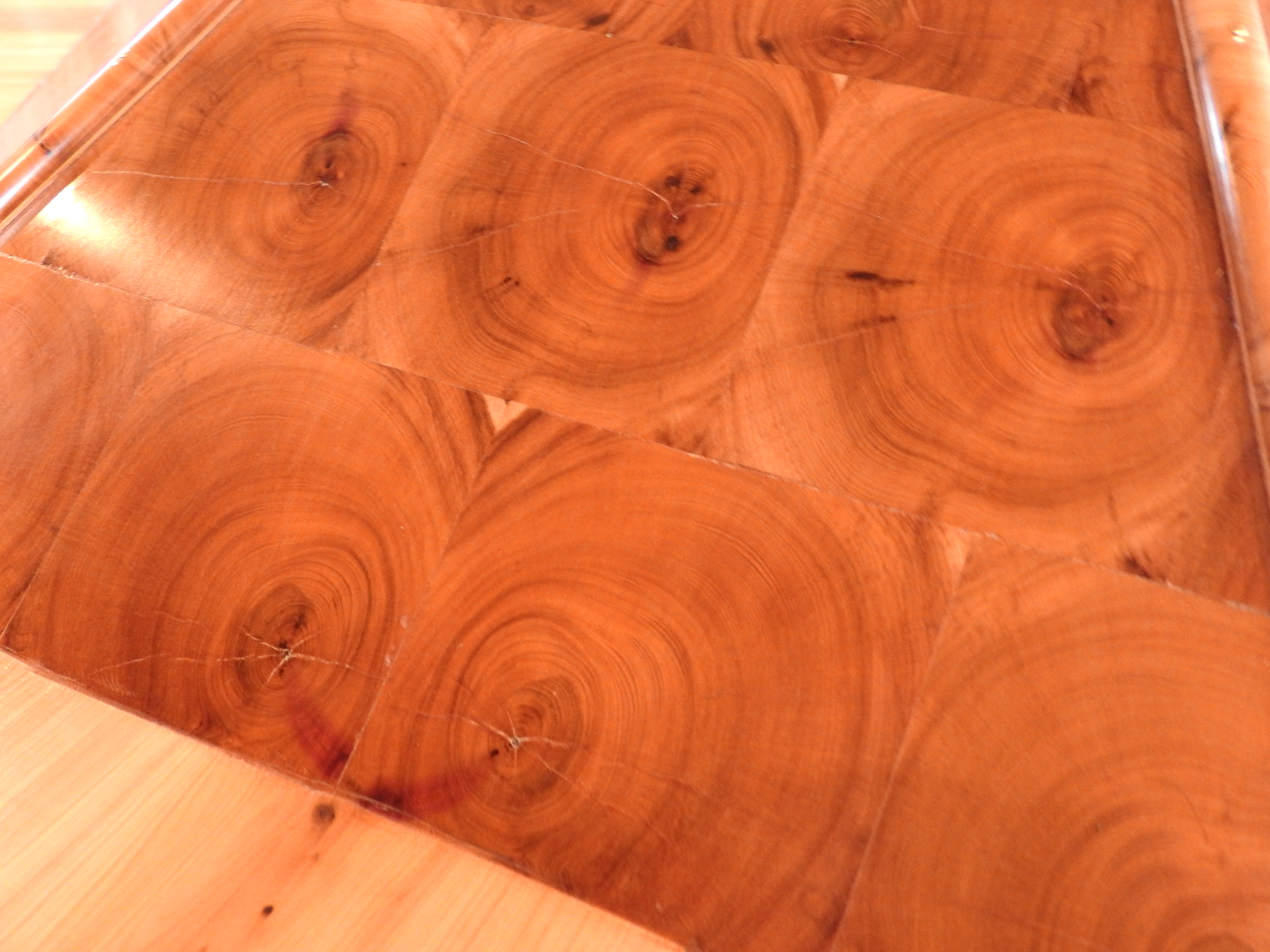 St Mary the Virgin's church, Rolvenden, Kent. The font cover was restored in 2017, by John Walters, a local craftsman, who used the technique of oystering with wood from the yew tree by the wedding gates in in the churchyard.